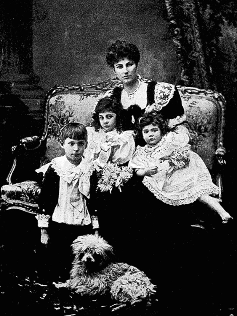 Violet Stuart Wortley and her children circa 1900